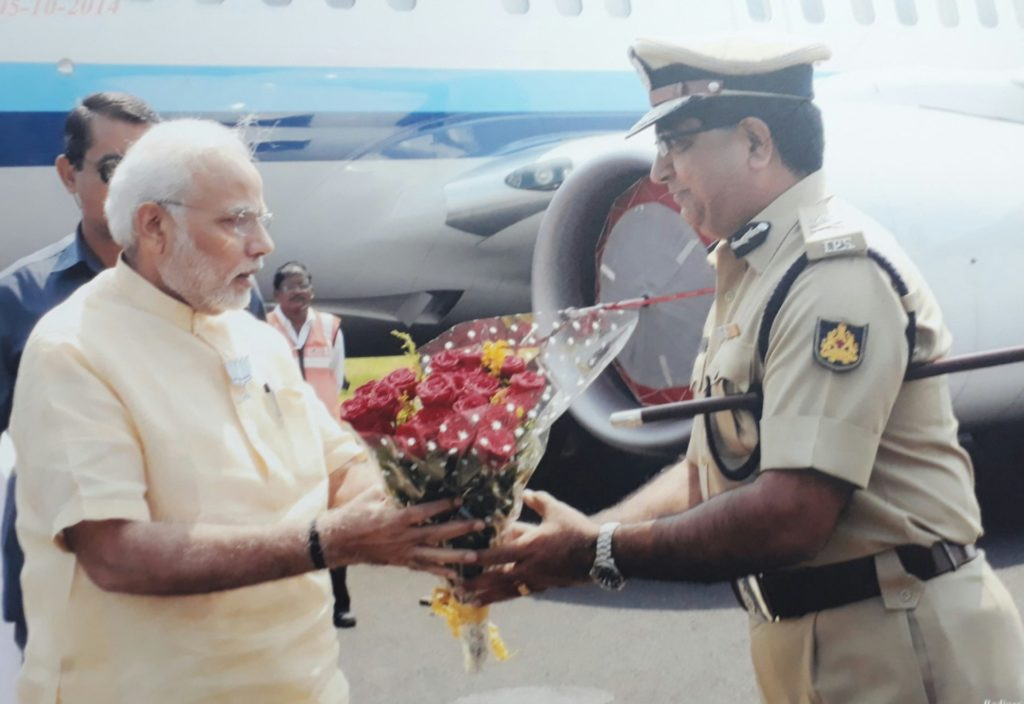 Greeting Prime Minister Shri. Narendra Modiji by Bhaskar Rao